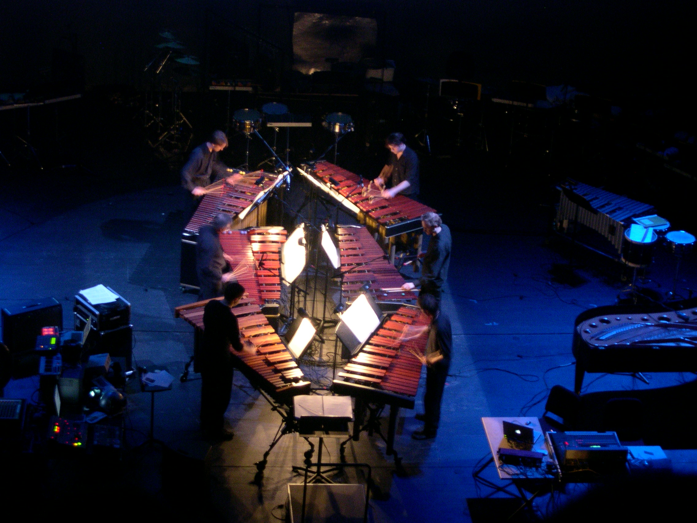 six marimbas by steve reich... performed by London Sinfonietta during WARP Project 2 in concertgebouw brugge